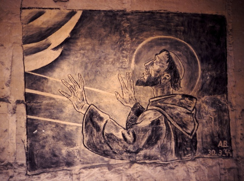 Jezuïetenberg - Vocation of Saint Francis. By father Anton Bleker S.J., 1944.